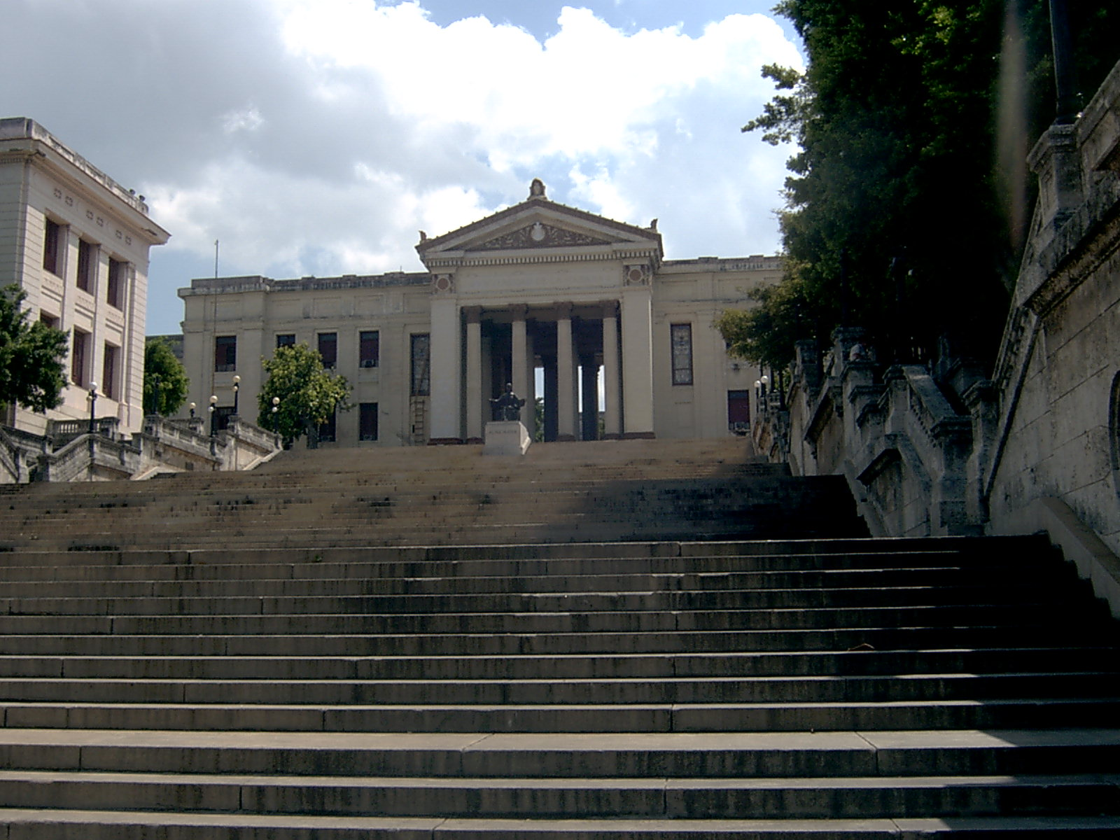 the old university in La Habana